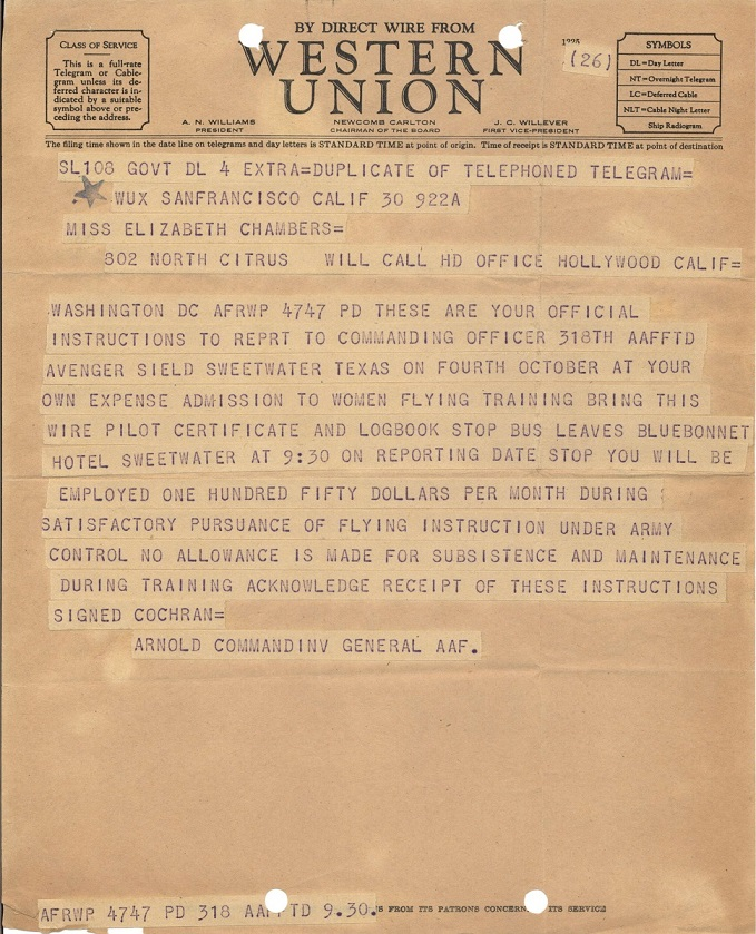 Telegram from Jacqueline Cochran summoning Elizabeth Chambers to WASP duty, from her OPF, National Archives in St. Louis